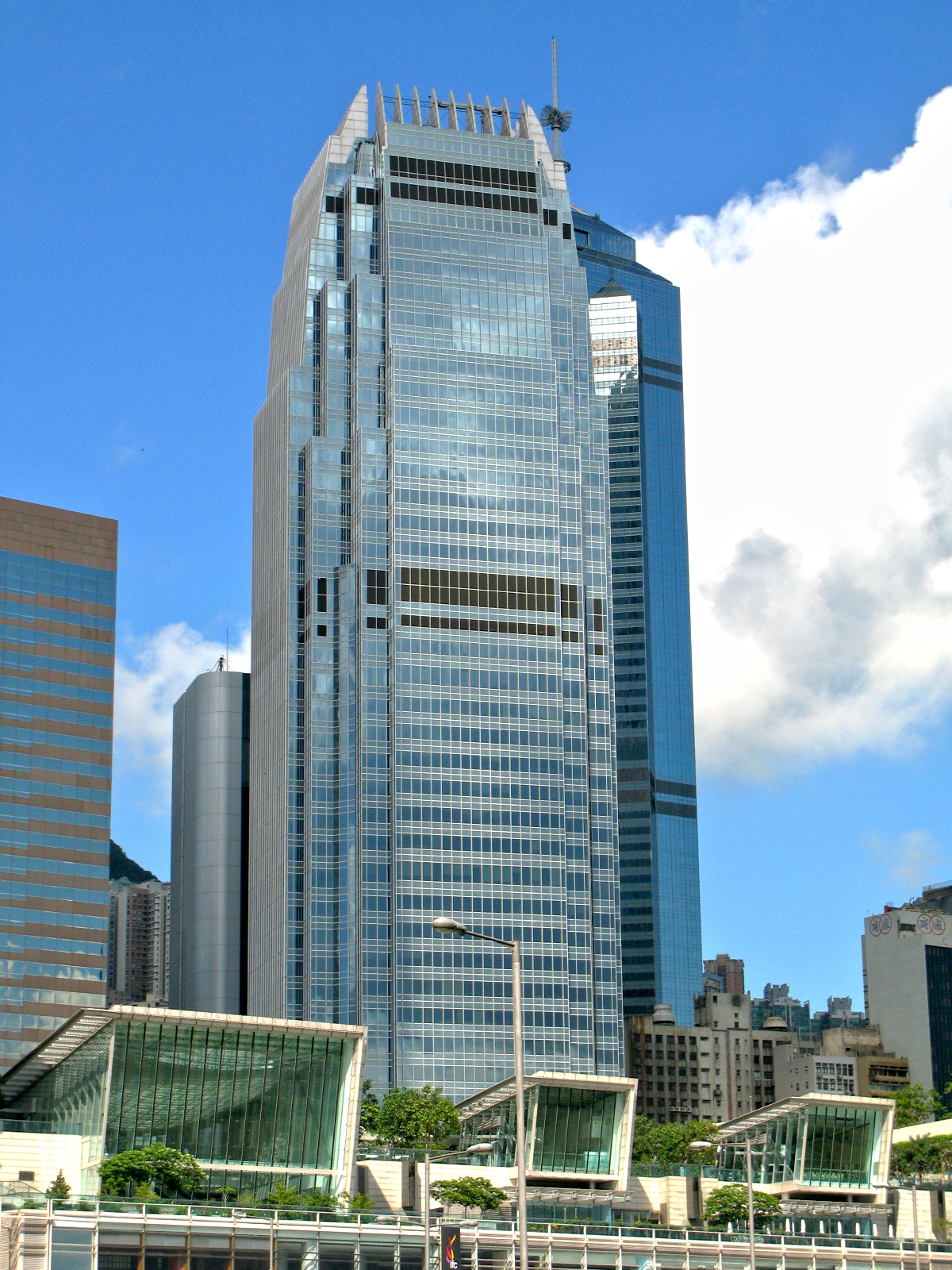 HK International Finance Centre Phase 1